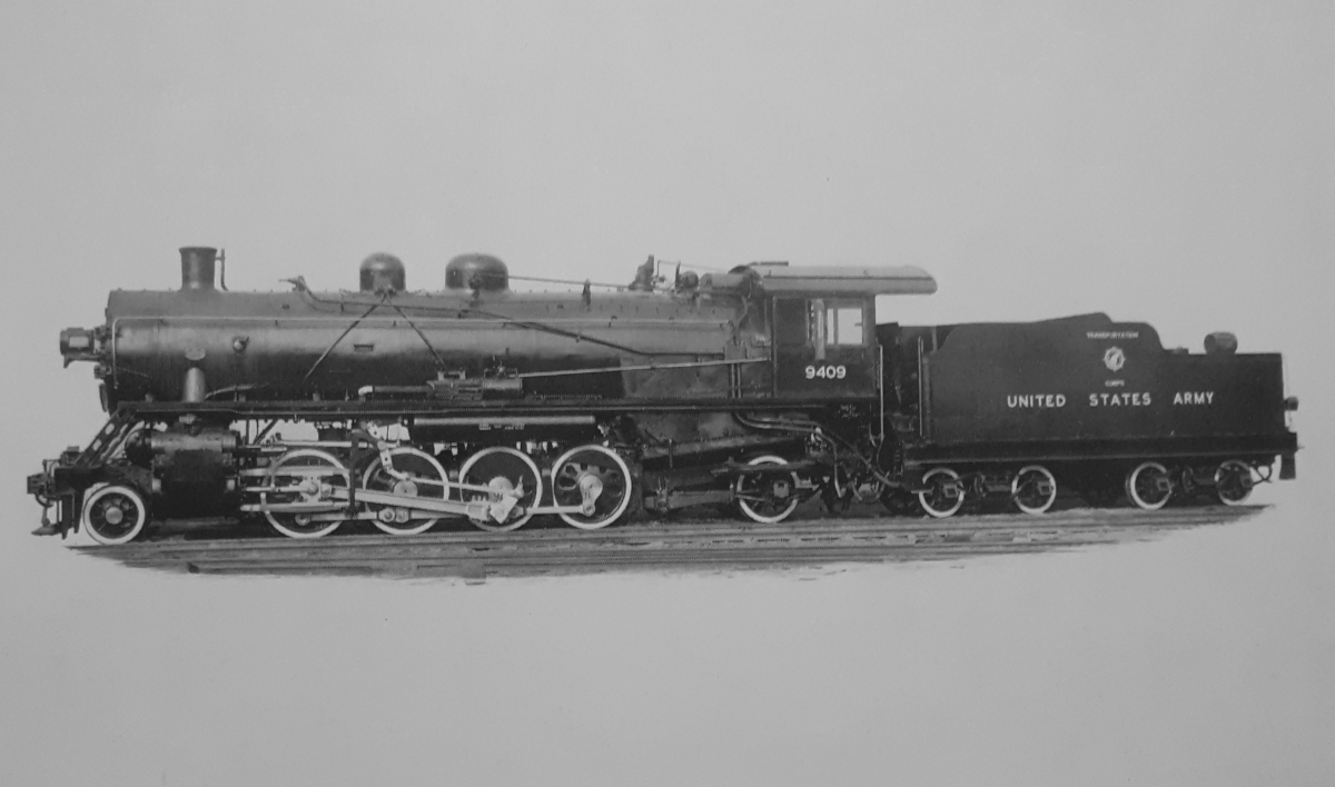 Mikai-class locomotive no 9409 built by Kisha Seizo for the US Army Transportation Corps